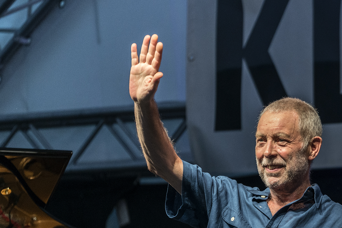 Dave Holland at Wuppertal, Klangart (Skulpturengarten Waldfrieden)